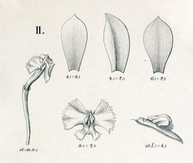 Illustration of Epidendrum denticulatum on Flora Brasiliensis